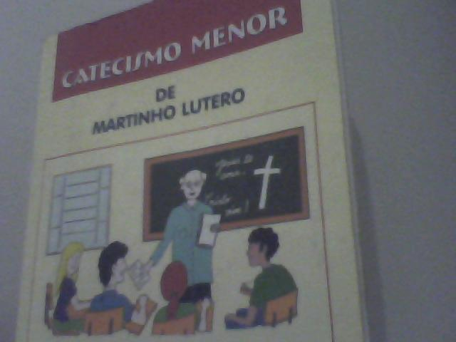 Photo of Catecismo Menor.